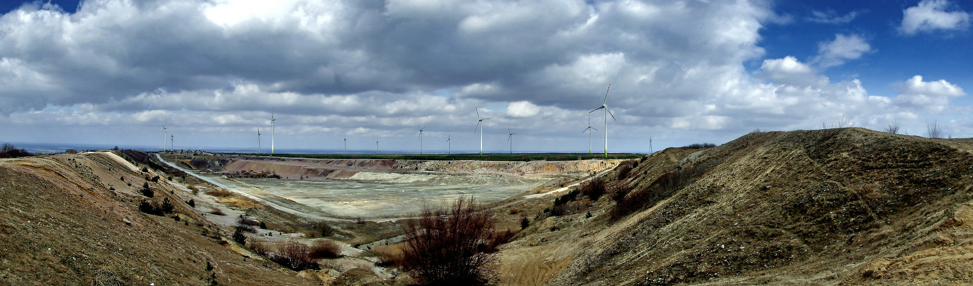 Wind farm - Góra Kamieńsk, Poland